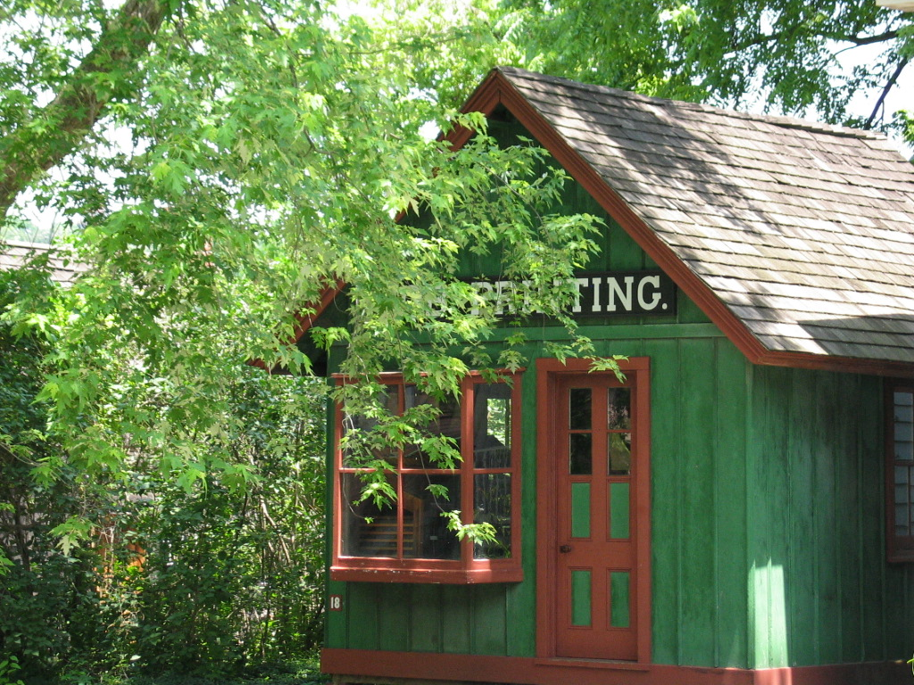 One of Colonial TImes Exhibit.